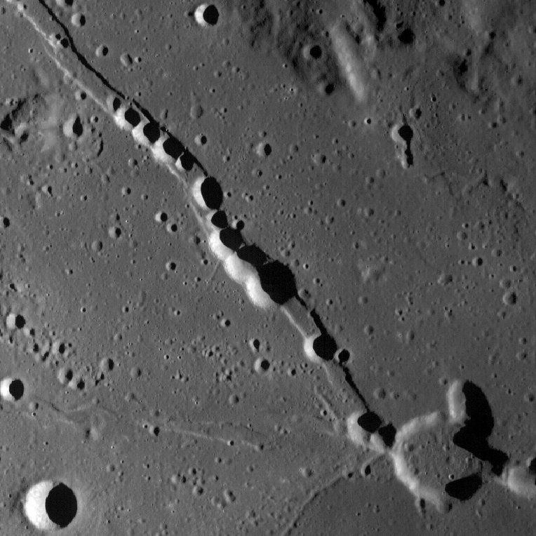 Rima Hyginus on the Moon, in northeastern Sinus Medii (a map). The biggest crater in lower right is Hyginus, and the crater in lower left is Hyginus B. Photo by Lunar Reconnaissance Orbiter, made with Wide Angle Camera on 14 December 2010 from altitude 43 km. Sun elevation is 14.5°. Width of the photo is 50 km, north is approximately up.